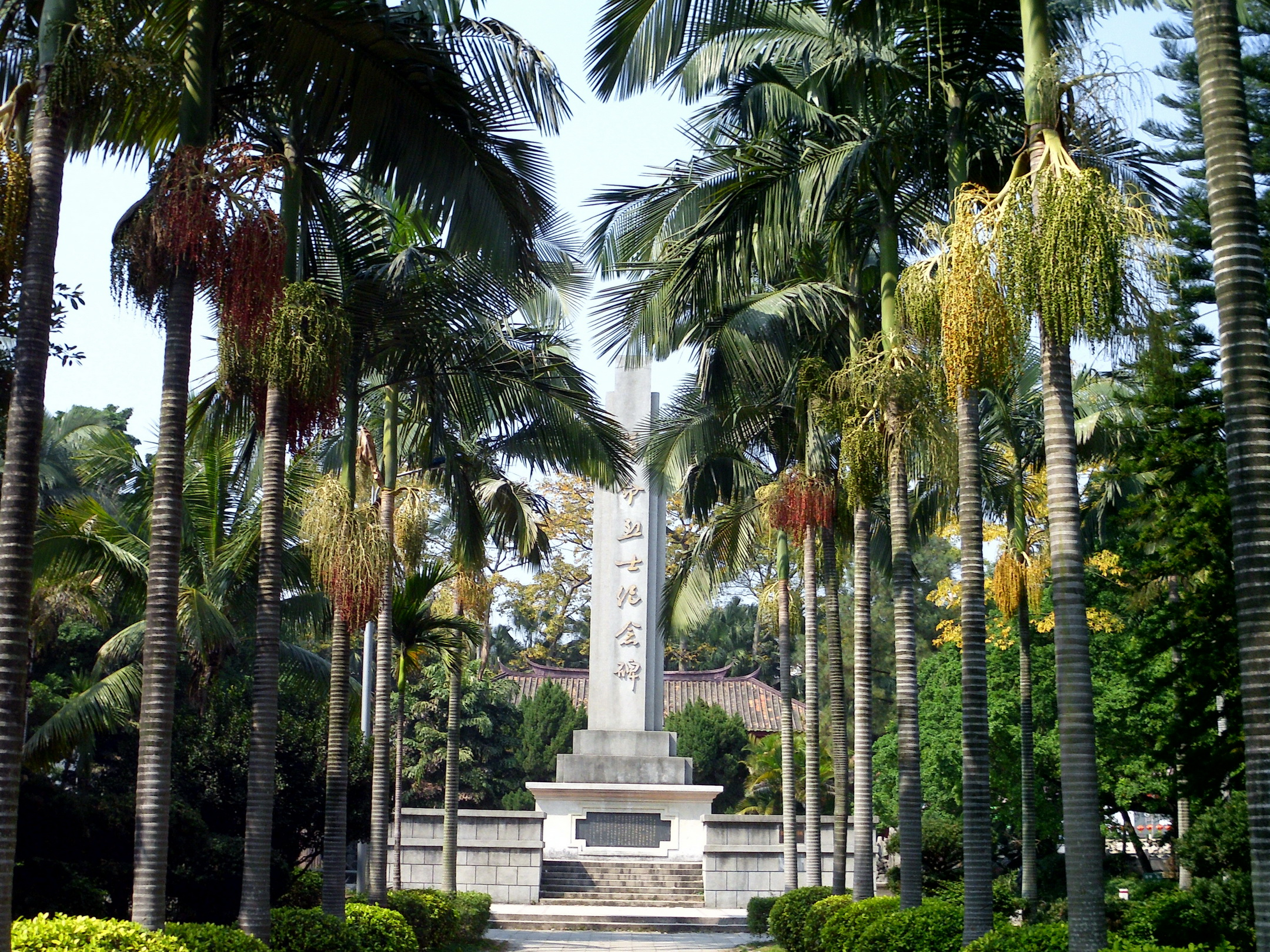 The Monument in People's Park of Liusha